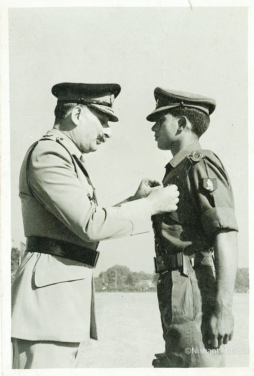 Shaheed Capt N S Ahlawat , Sena Medal, Shaurya Chakra (P) being awarded Sena Medal by Field Marshal Sam Maneckshaw for his valor in the 1971 Indo Pak War